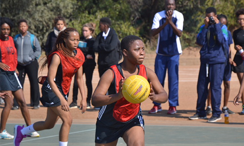 MaP's highly successful U19 Netball Team in action